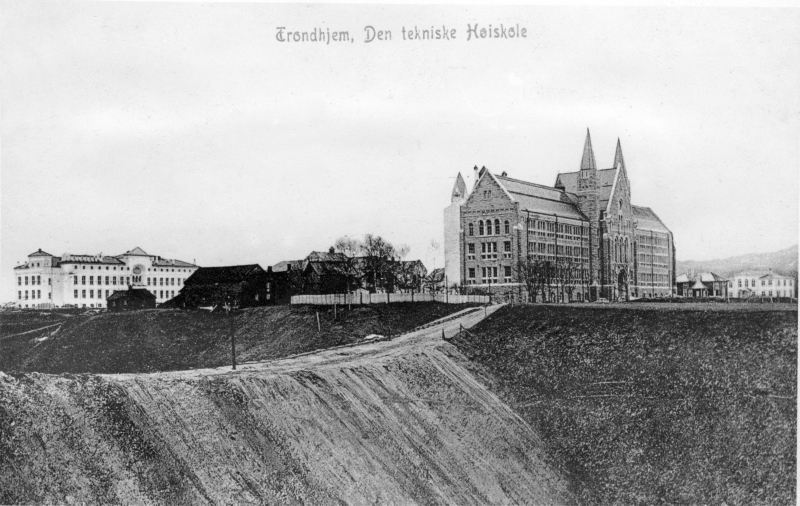 When the construction of the first buildings of NTH, The Norwegian Institute of Technology, started in 1905, parts of the earth from the site was used to establish a road from what is now known as Campus NTNU Gløshaugen, Trondheim, to the street Øvre Allé. In 1927 it was changed into a bridge, to let the road and tramway pass under.